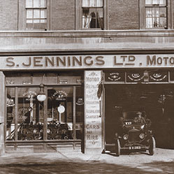 1911 - Septimus Jennings purchases his first business premises in Morpeth, Northumberland and starts selling bicycles and motor cars. He employs 6 people.